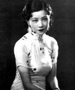 Ruan Lingyu, Movie Star in China in the 1920s-1930s